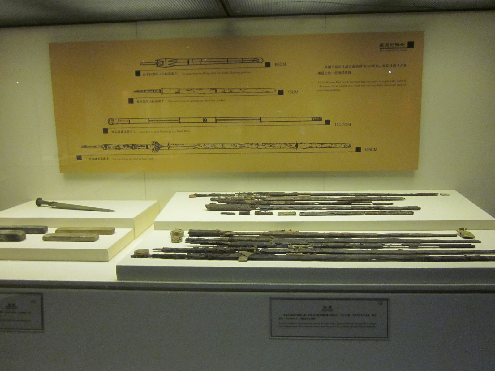 Museum of the Tomb of the King of Southern Yue in Western Han Dynasty